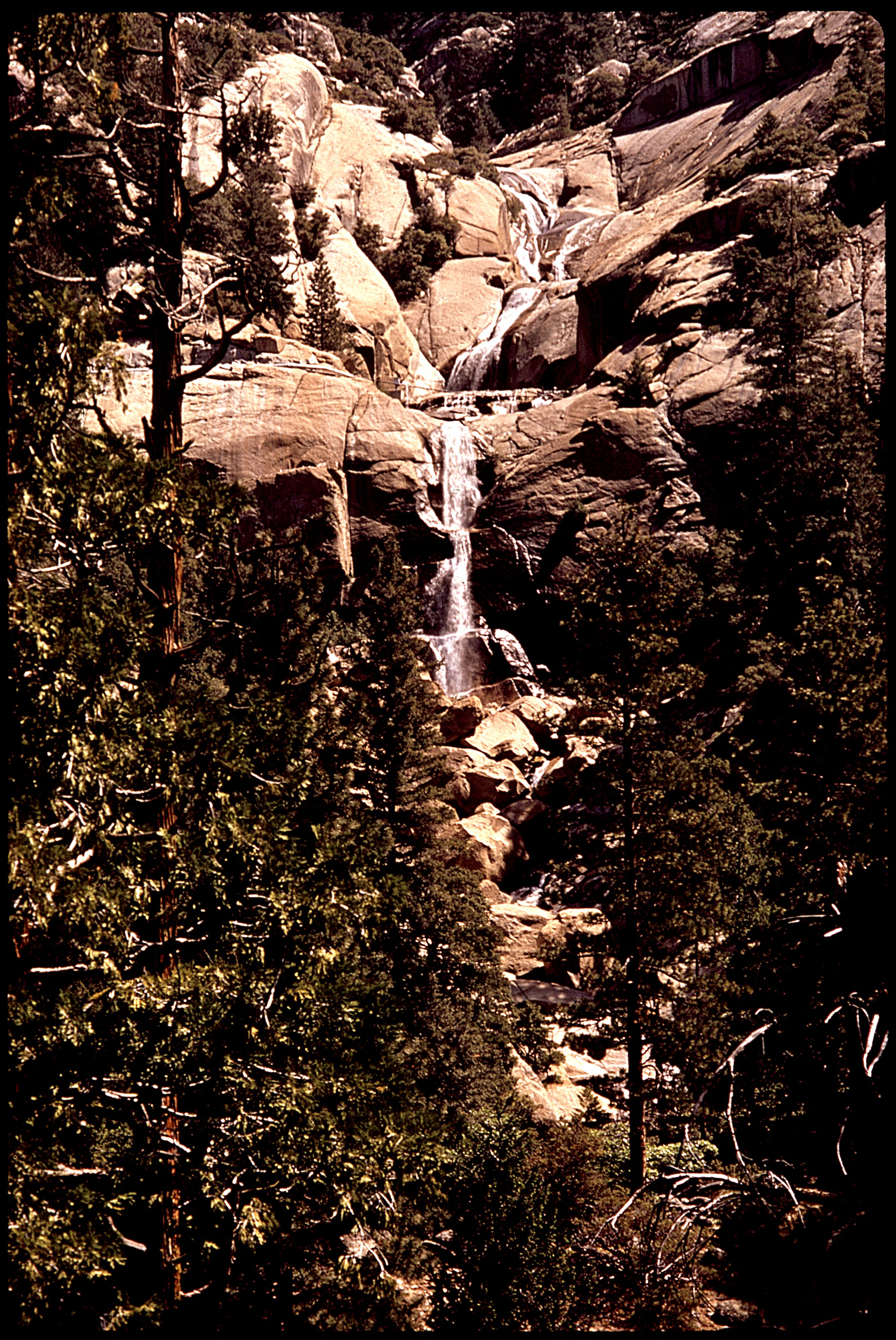 General notes: Waterfall of Big Creek — a tributary of the San Joaquin River, in the central Sierra Nevada. Located within Sierra National Forest, in Fresno County, California.